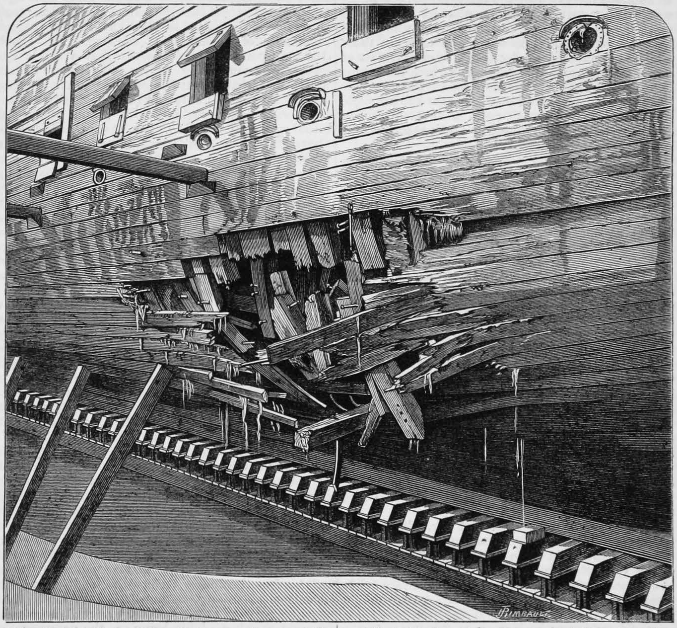 In March 1877 the French Navy conducted test with spar torpedoes, using the old frigate La Bayonnaise and attacking with a boat built by the Thornycroft yard. It was reported in the periodical Engineering on July 20, 1877, page 50, along with this illustration by John Henry Rimbault on page 44.